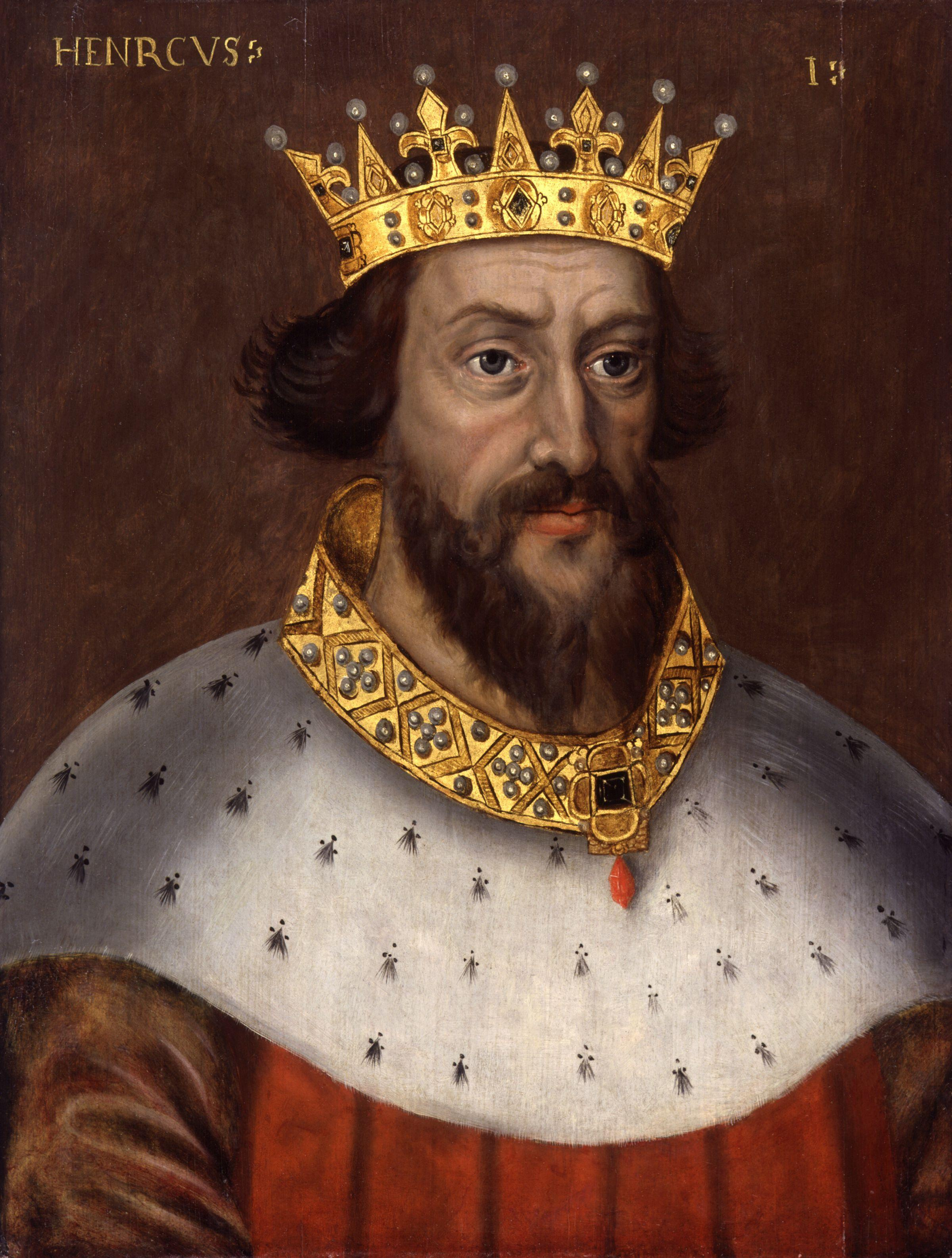 King Henry I, by unknown artist. All images in this batch are listed as "unknown author" by the NPG, who is diligent in researching authors, and was donated to the NPG before 1939 according to their website.